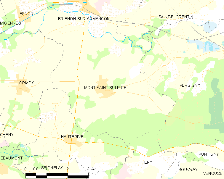 Map of French municipality Mont-Saint-Sulpice